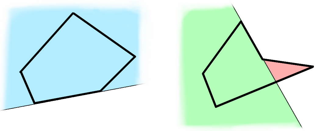 Differences between polygons.